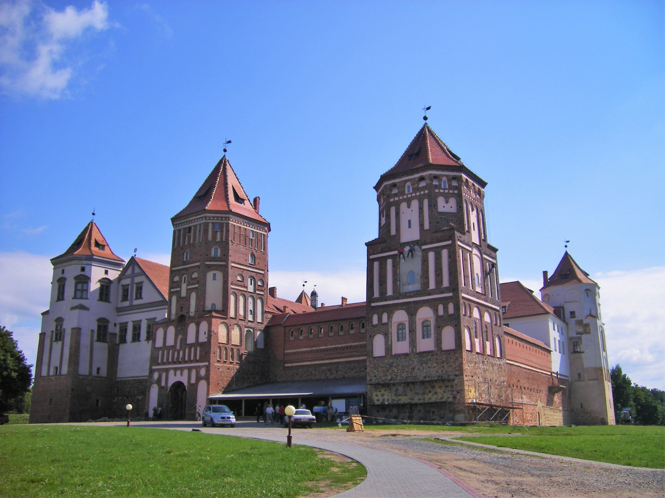 Mir Castle Complex, Belarus